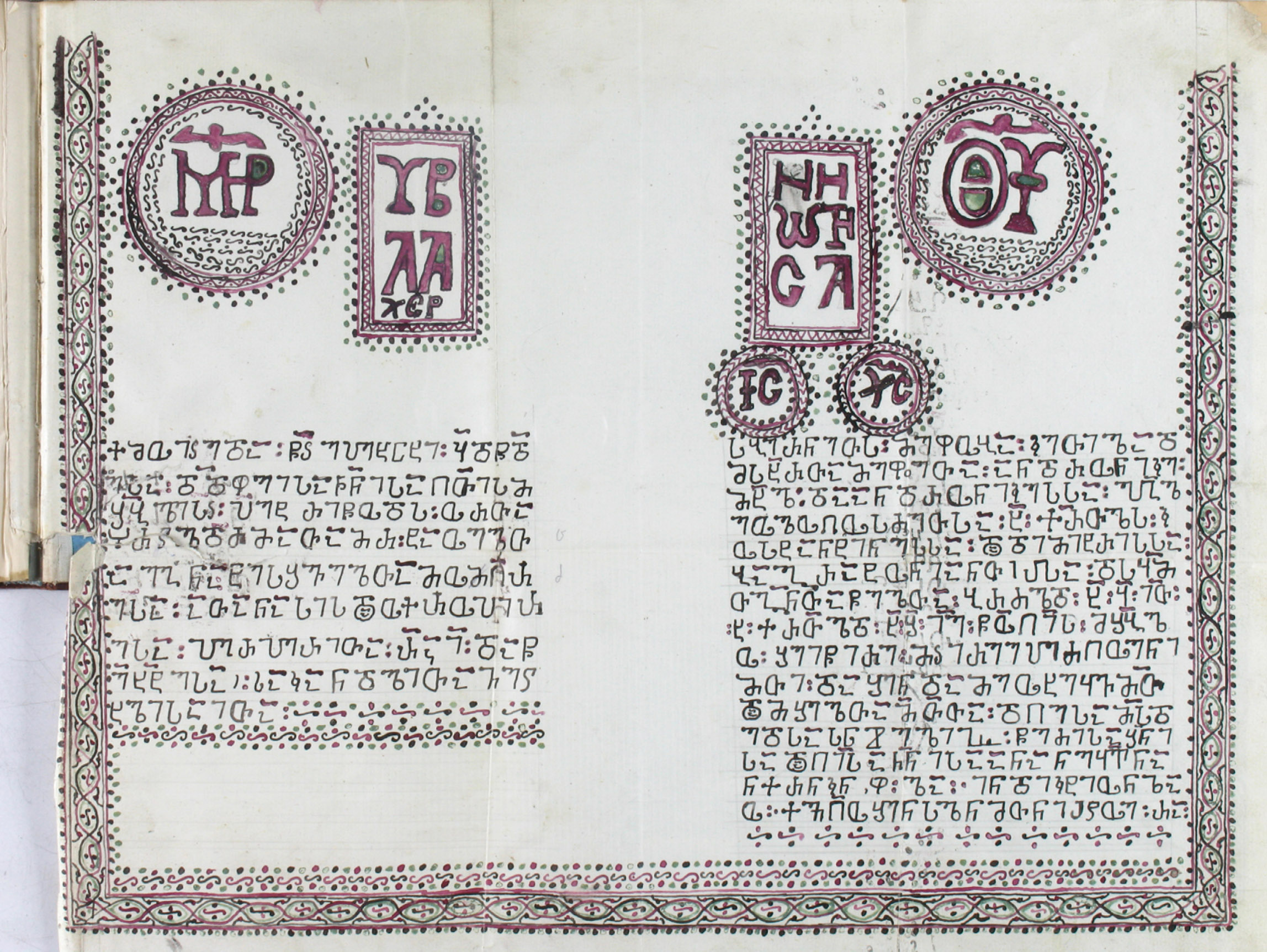 Bochkovi (Petritsoni) monastery tipikon (Sofia)-last page